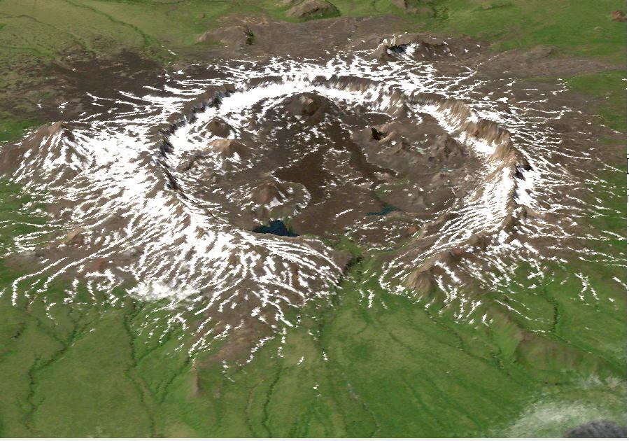 Satellite view of Umnak, Alaska, showing the Okmok volcano